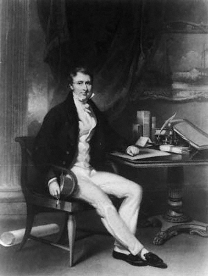 William Jardine (1784–1843)